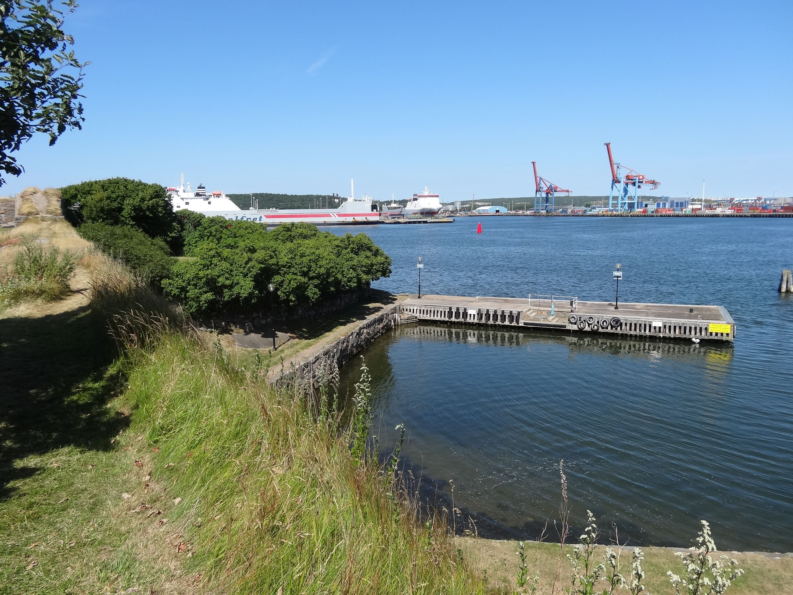 View north along the eastern wall of the hornwork at Nya Älvsborg fortress, Sweden. The Governor´s garden utilises the windshield. The outer harbour to the right is off limits for pleasure vessels.